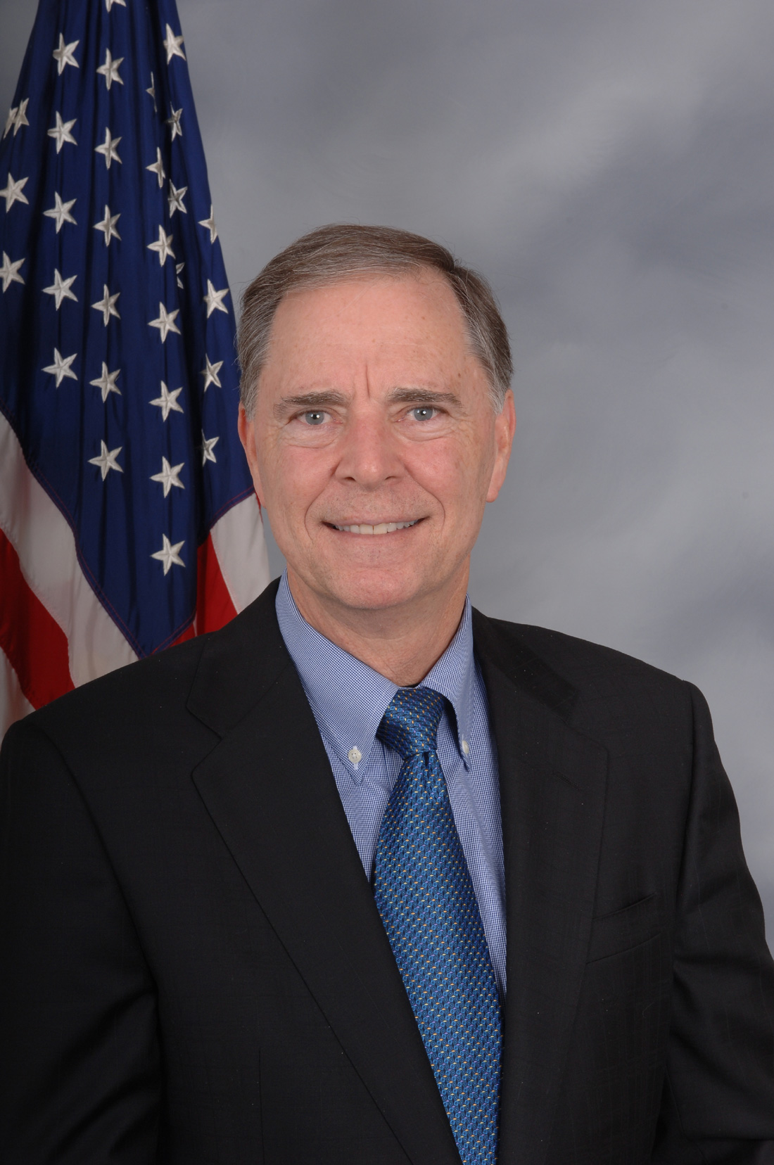 Bill Posey, member of the United States House of Representatives.